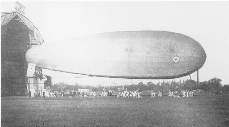 Airship of the Argentine Navy El Plata (DE-1 or O-1) in Punta Indio base, 1927